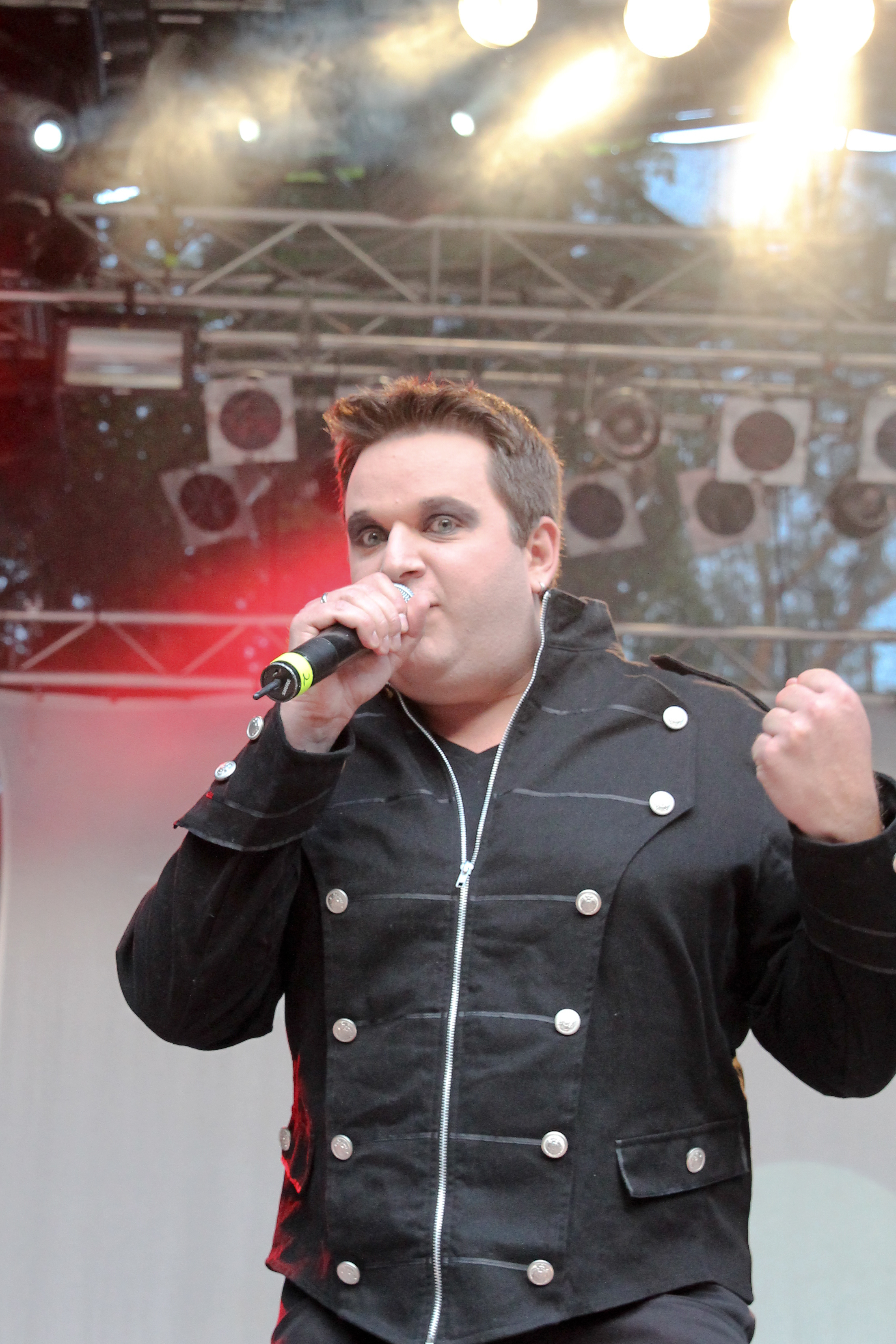 Illuminate at the Wave-Gotik-Treffen 2014.